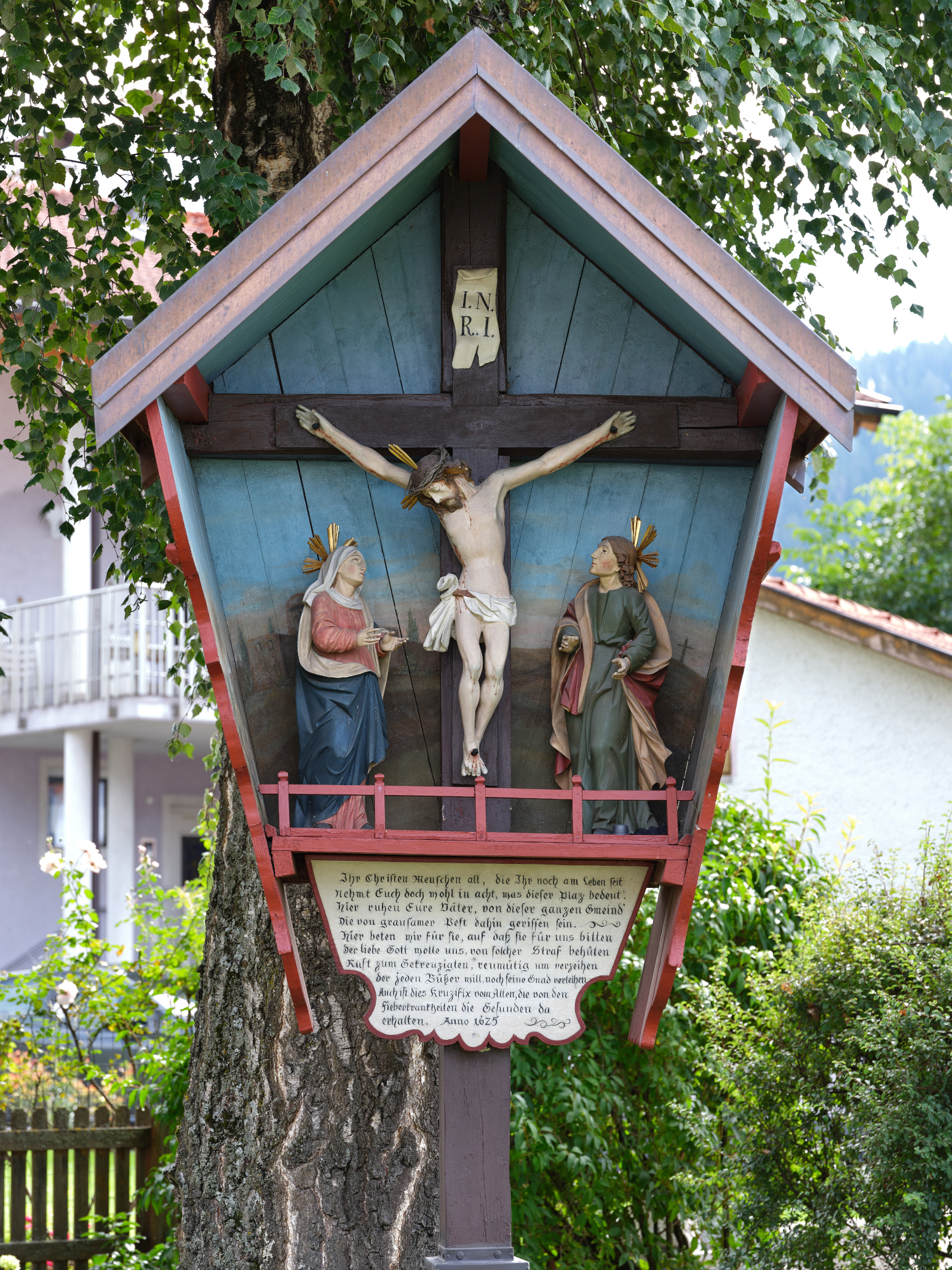 The high-quality cross group from the second third of the 17th century is located in a painted wooden box on the former plague cemetery. It commemorates the year 1637, when Völs was almost completely depopulated by the plague.